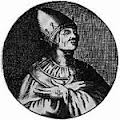 A lithography of Pope John VIII, made before 1923